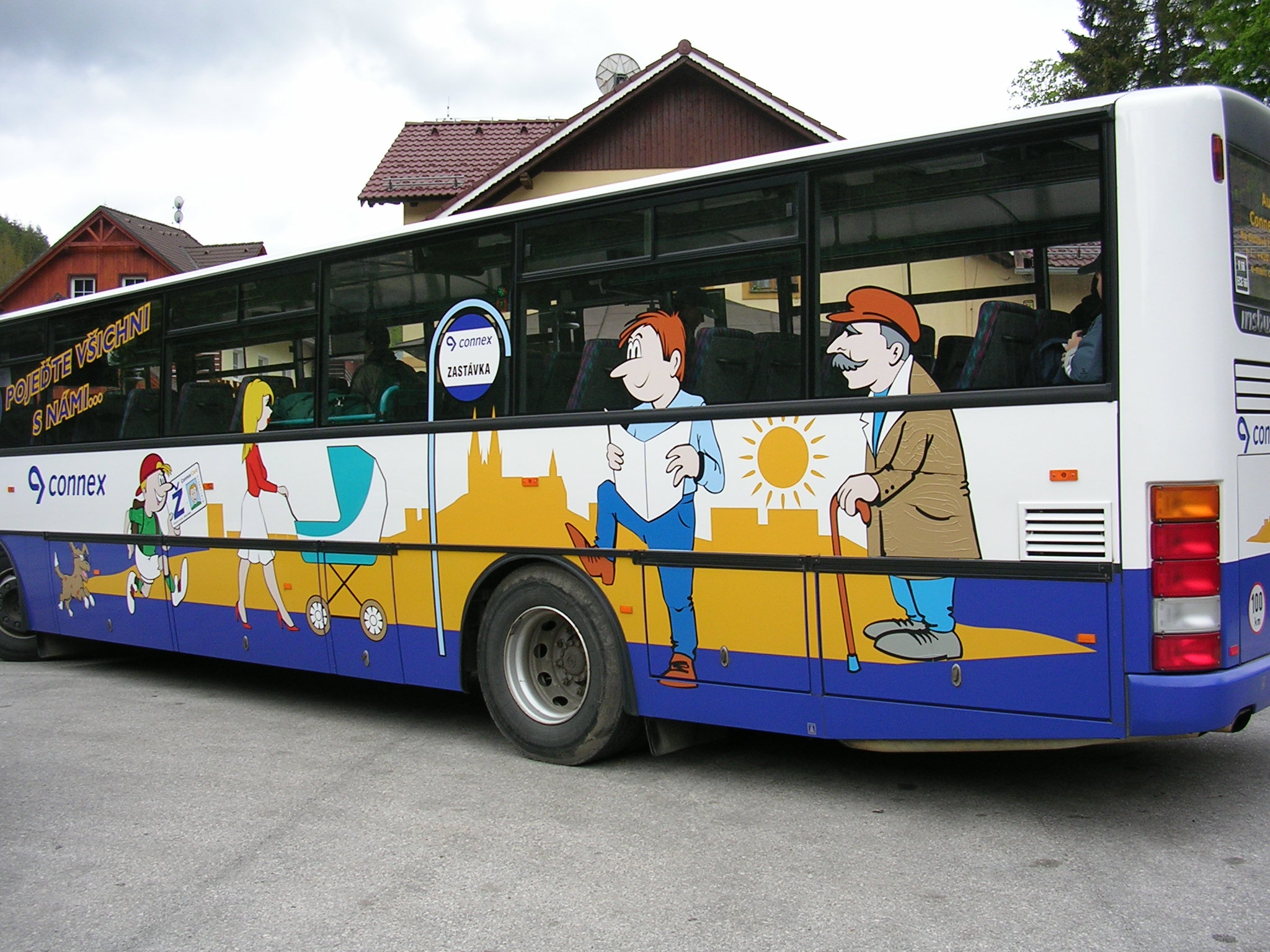 Bus in Pec pod Sněžkou, Hradec Králové Region, the Czech Republic.